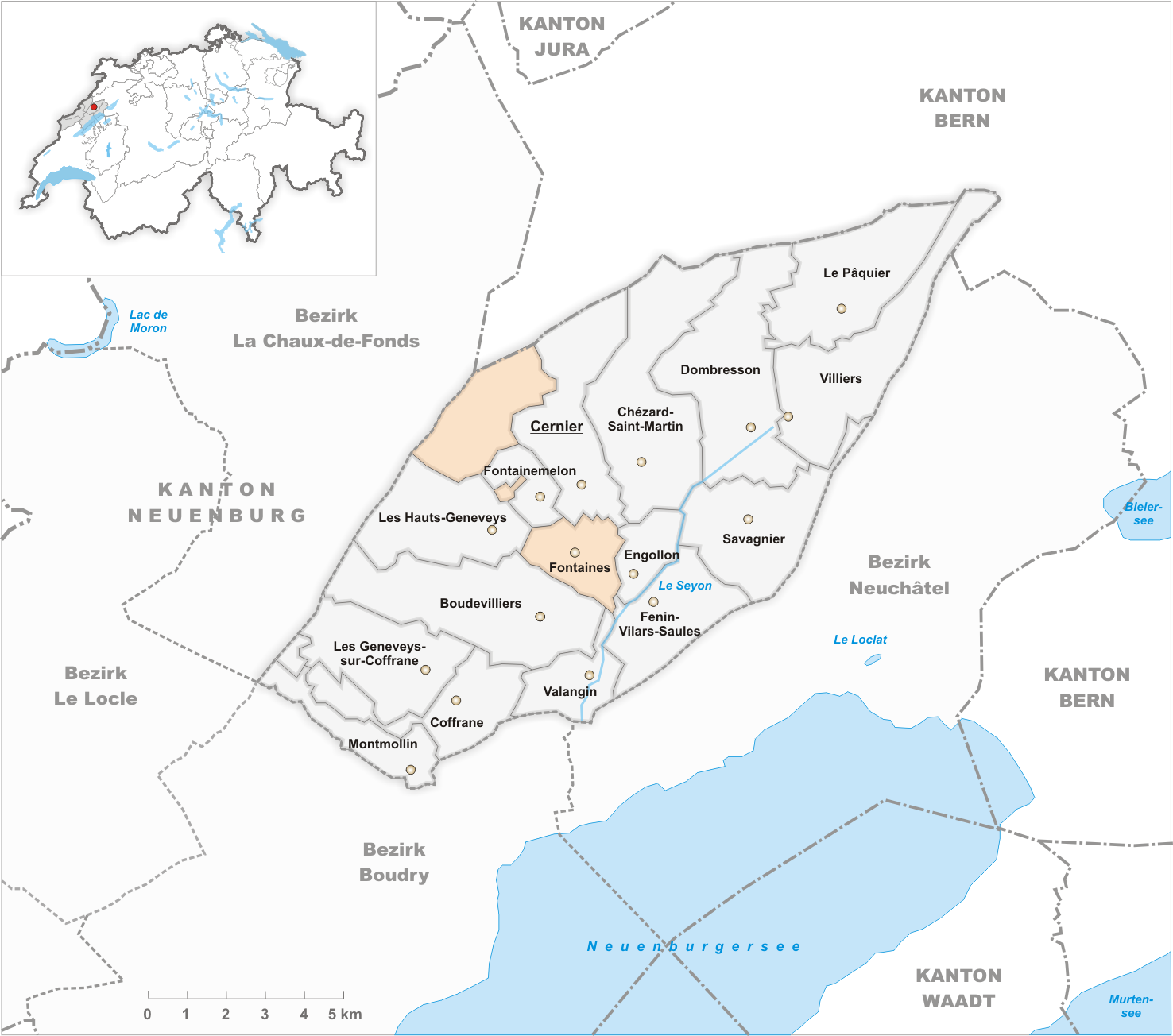 Municipality Fontaines